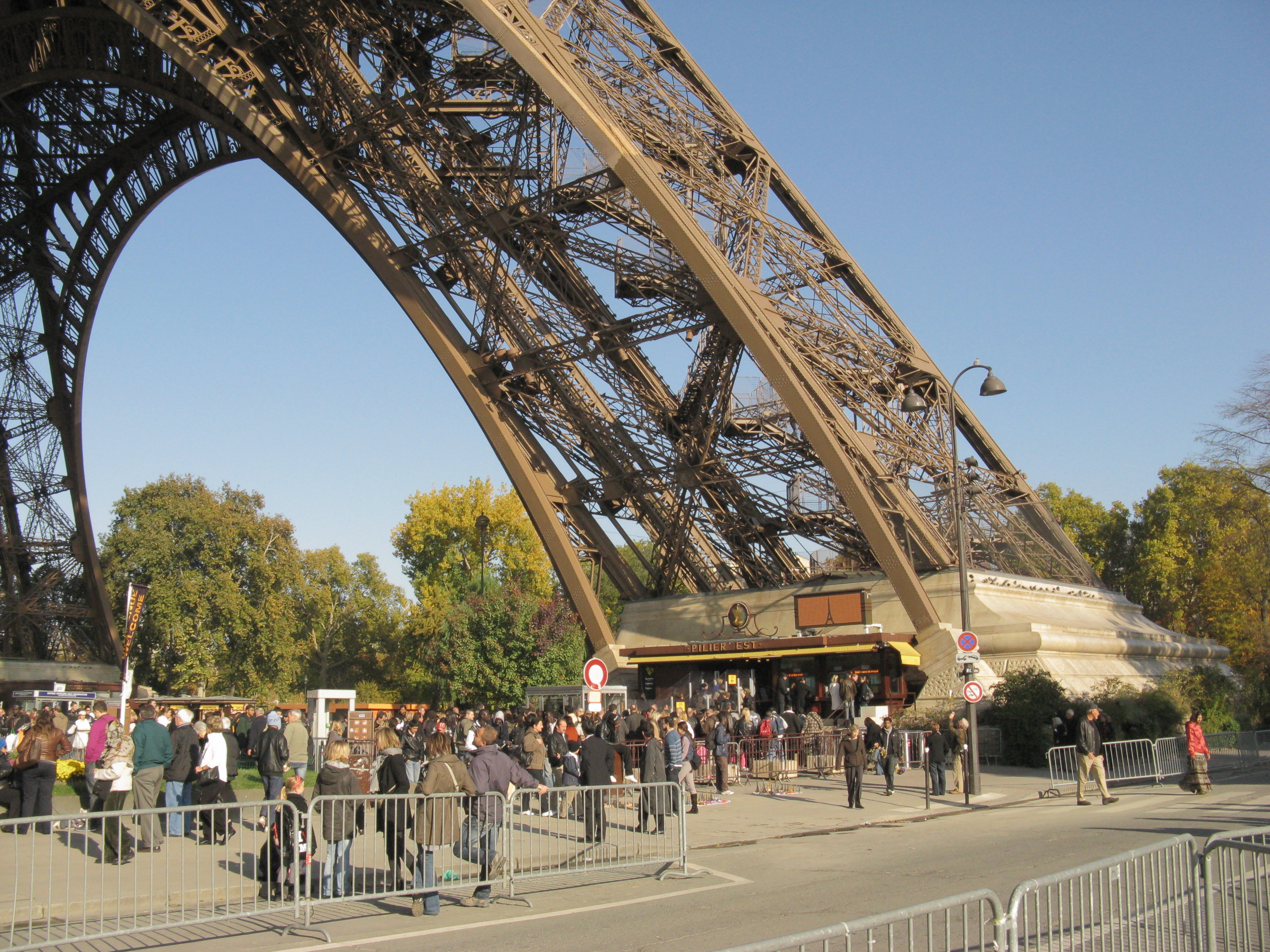 Foot of the Eiffel Tower at the Champ de Mars in Paris, France.